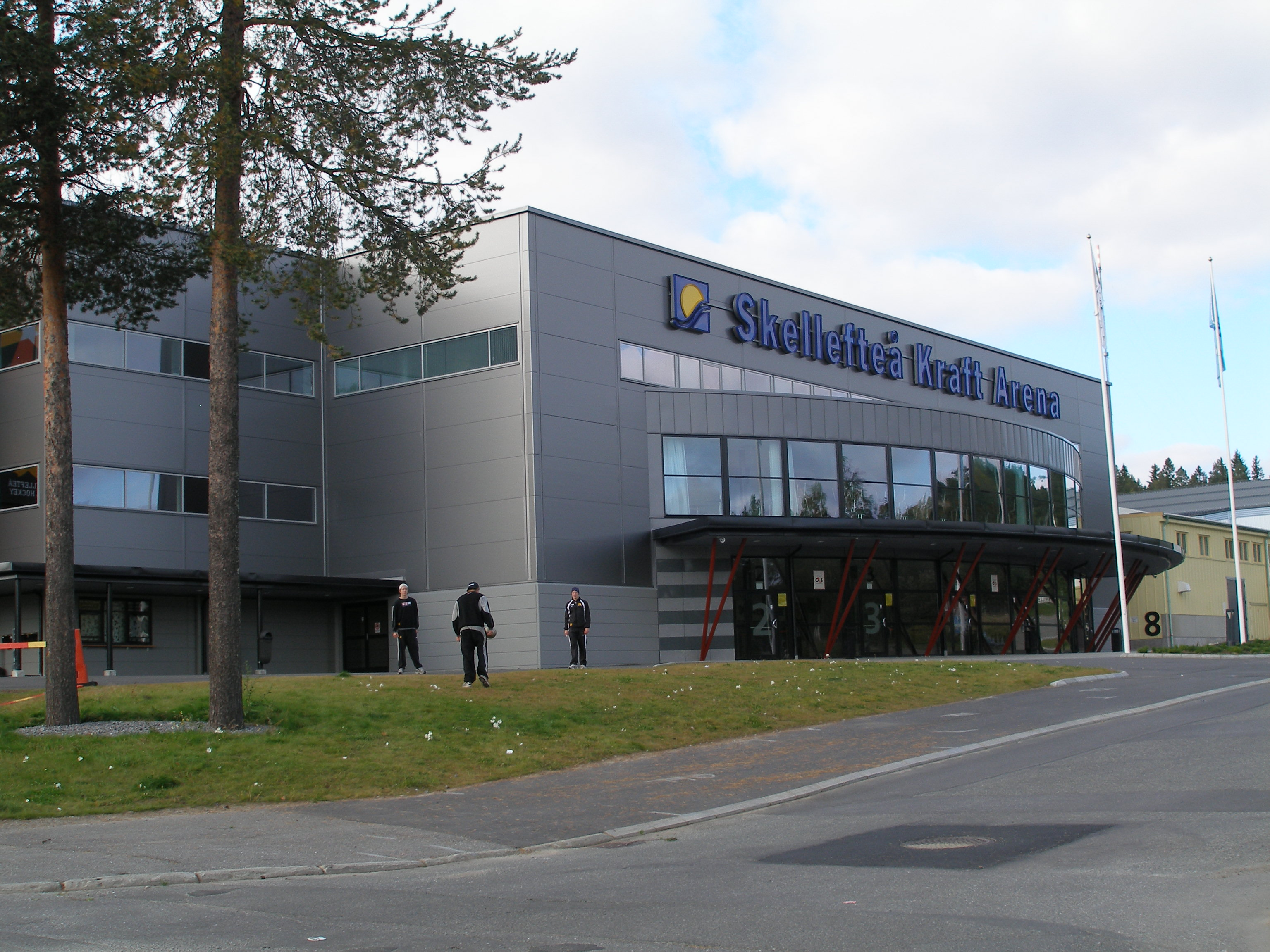 Skellefteå Kraft Arena in Skellefteå, Sweden